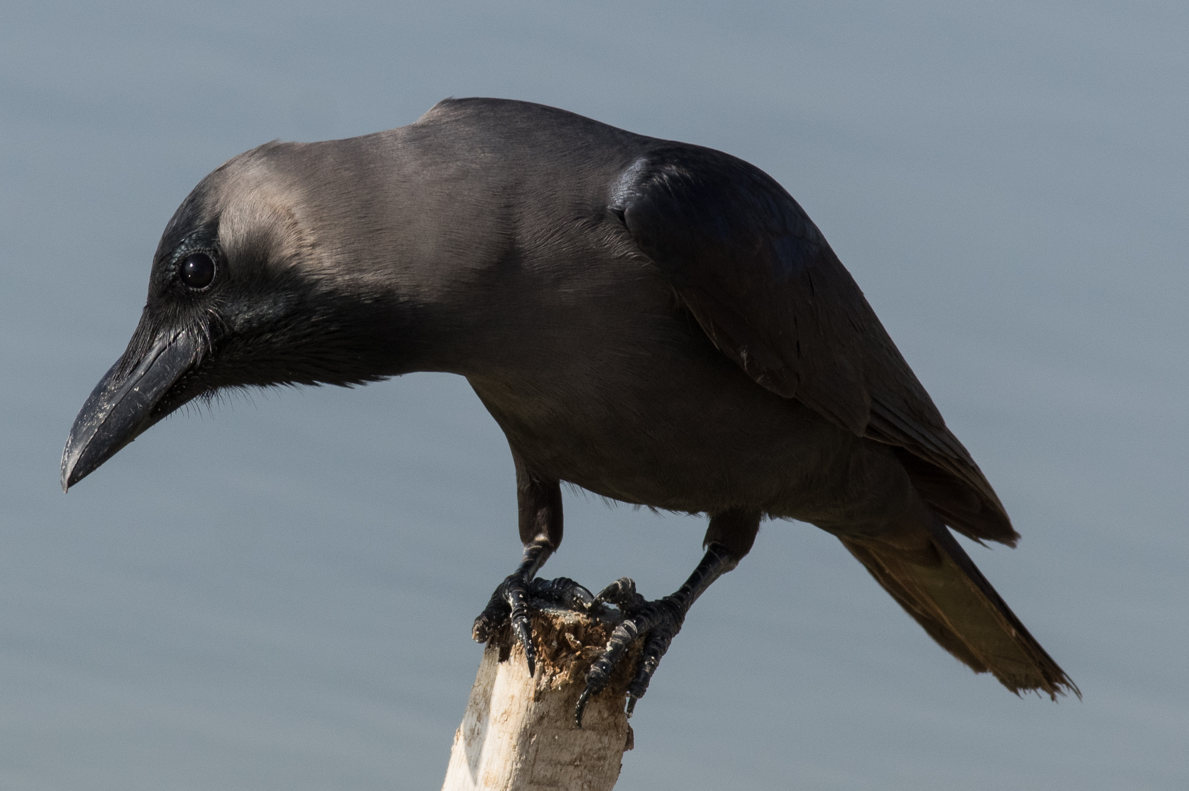 House crow (Corvus splendens), Salalah, Oman